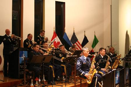 Big Success For First NATO Jazz Orchestra Concert 2011